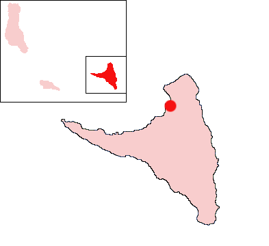 Ouani, Anjouan, Comoros Location Map; created with the GIMP. Made by User:Acntx.